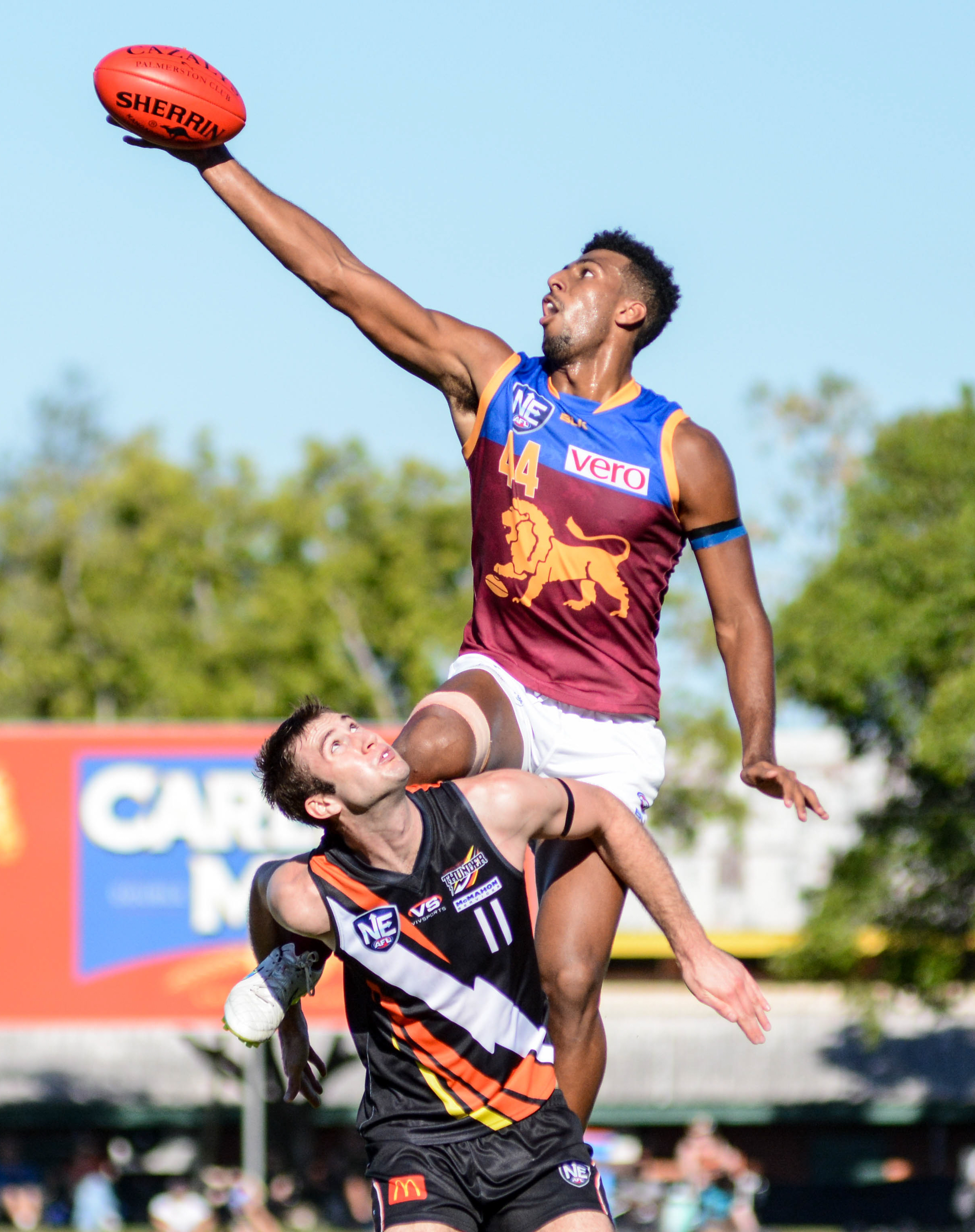 Archie Smith of the Brisbane Lions winning a ruck contest against NT Thunder ruckman, Jonathon Miles, during a North East Australian Football League (NEAFL) match on 4 July 2015 at TIO Stadium in Darwin, Northern Territory.